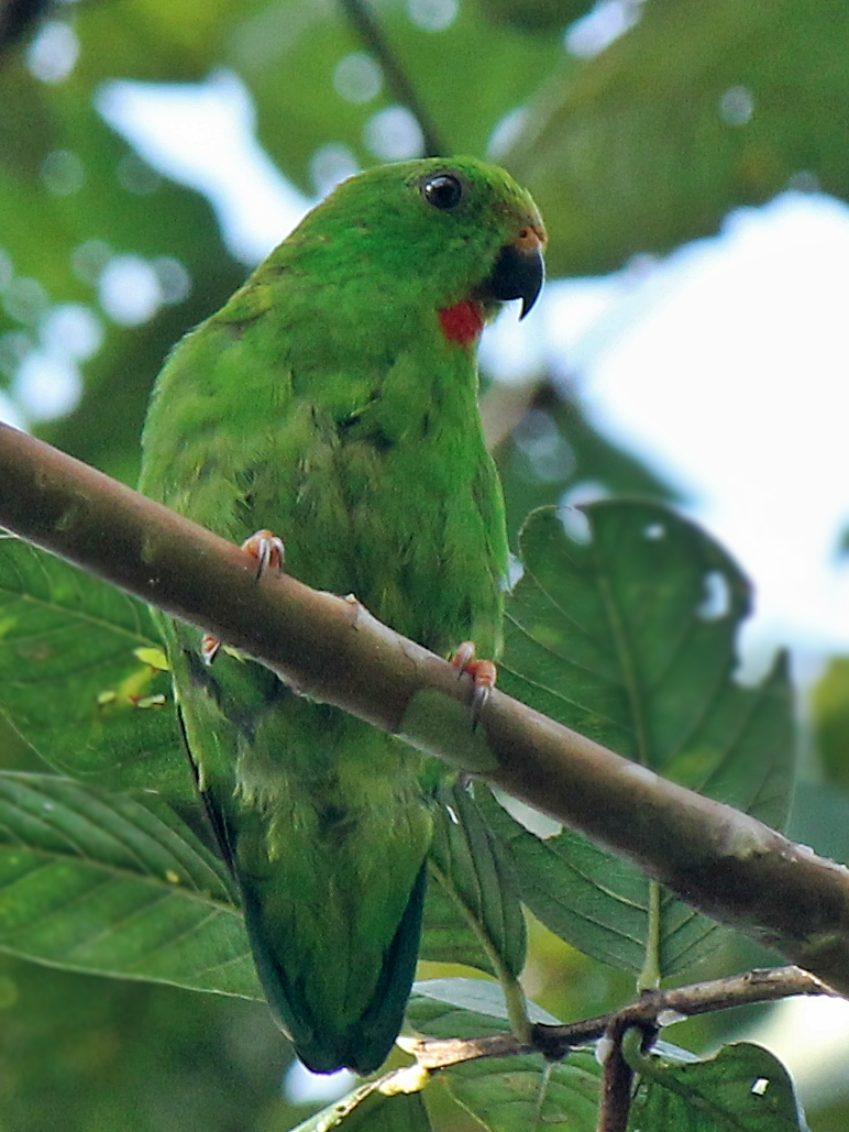 Great Hanging-parrot (Loriculus stigmatus) at Warembungan, North Sulawesi